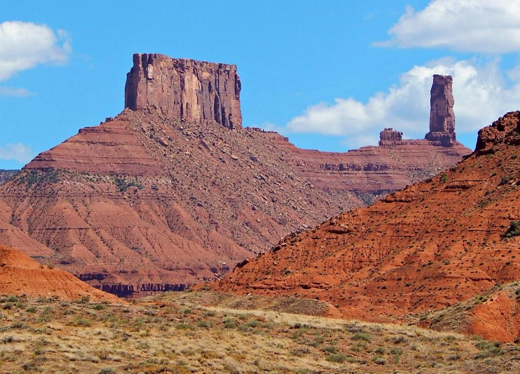 The Rectory on left with Castleton Tower on right. Near Moab and Castle Valley, Utah. Long lens used from Highway 128